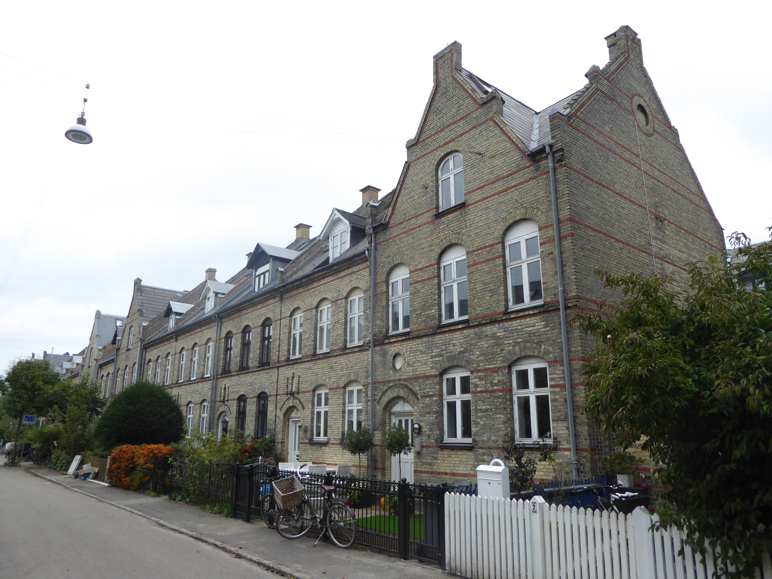 The street Niels W. Gades Gade in Østerbro in Copenhagen.